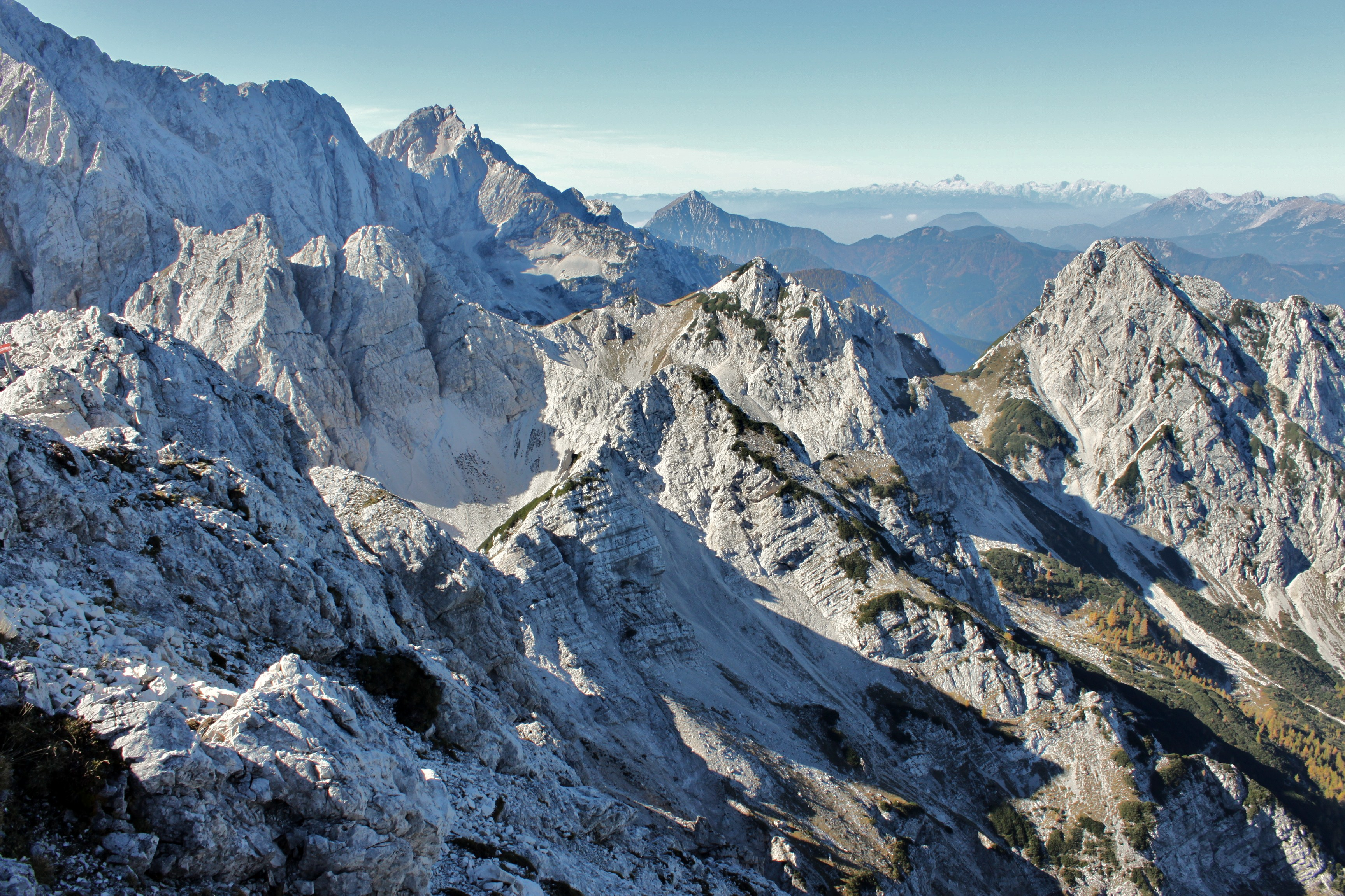 Kamnik-Savinja Alps, view due West, from Mrzla gora